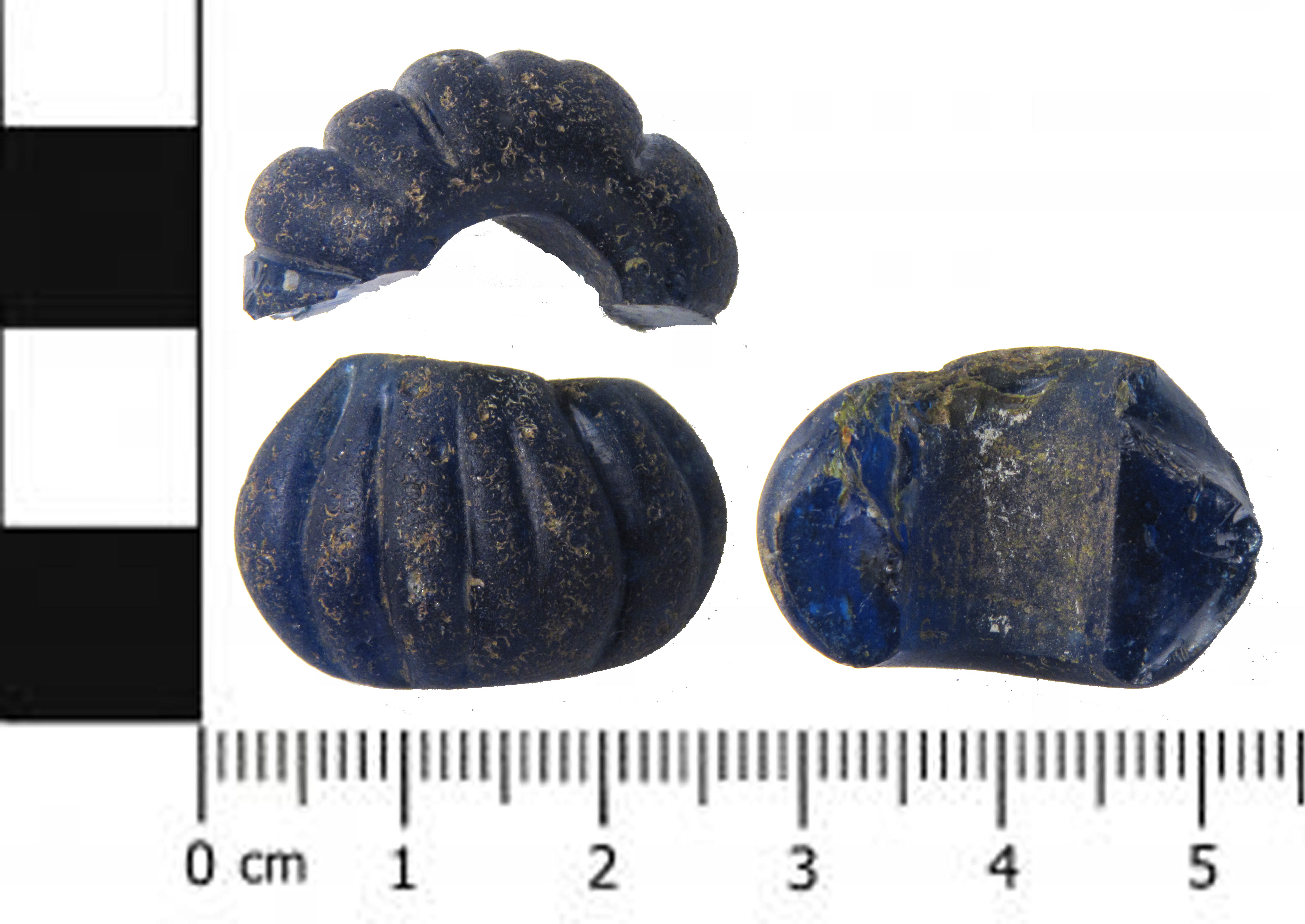 Half of a dark blue glass melon bead of Roman date (50-200 AD). The bead is irregular in plan and cross section. Originally it would probably have been sub-oval shape in plan with a central hole. The outer edge of the bead would have been ridged or grooved; a number of these grooves survive on the fragment. The bead has been broken relatively recently as the edges are crisp and unabraded, the matrix of the glass shows frequent small bubbles.